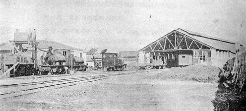 Dadaocheng Station